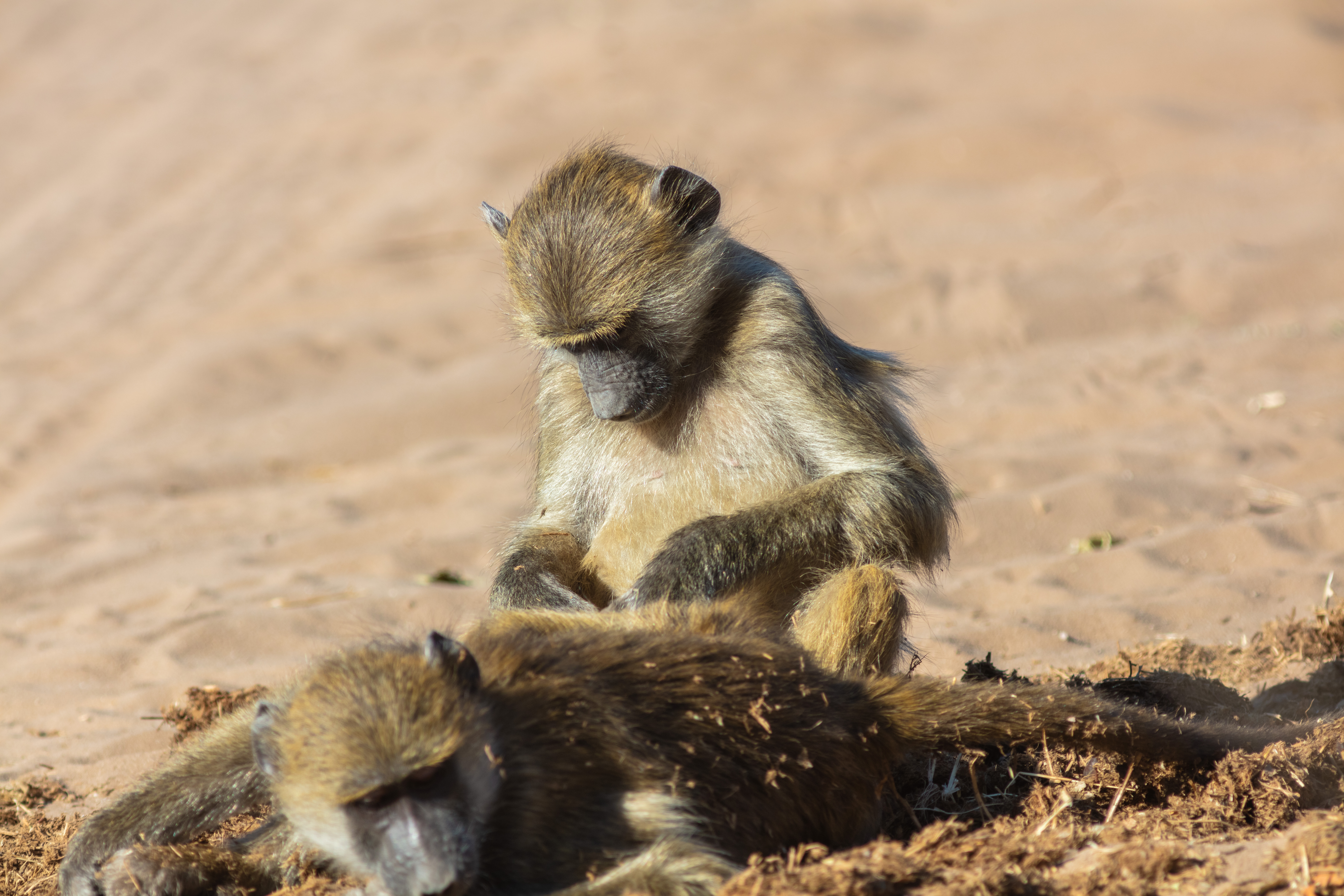 Chacma baboon (Papio ursinus), Chobe National Park, Botswana